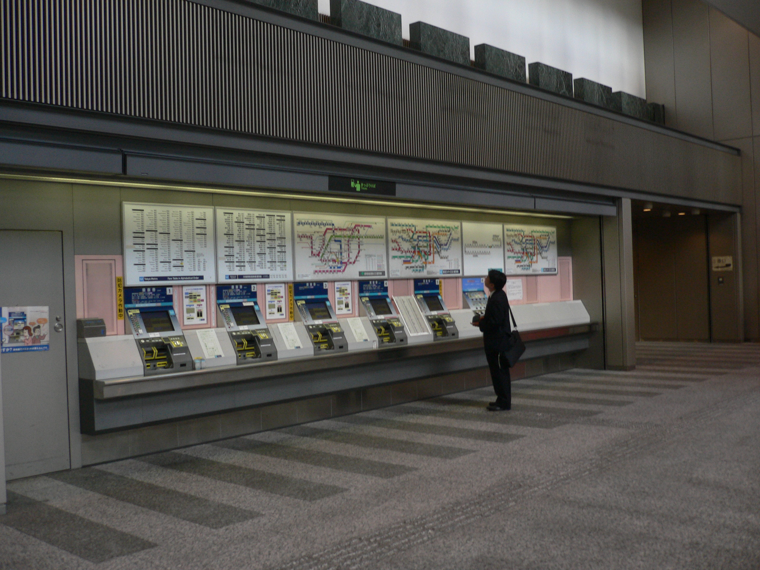 The ticket machines at Roppongi-itchome Station on the Tokyo Metro Namboku Line in Tokyo, Japan